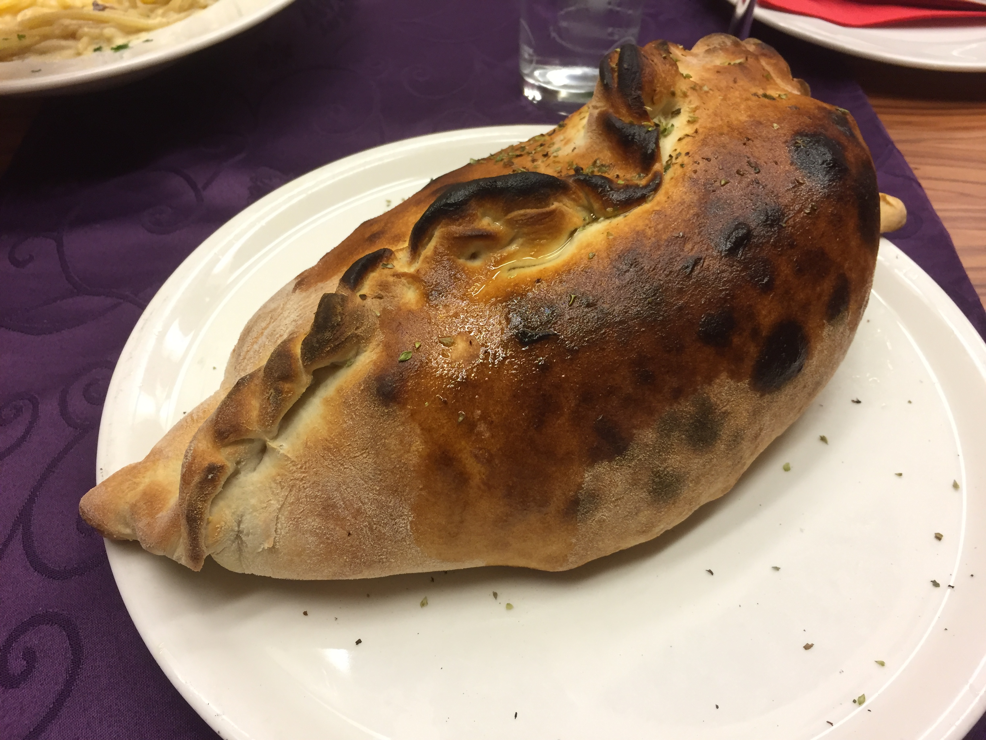 Pizza Calcone in der Pizzeria Fantastica, 1220 Wien